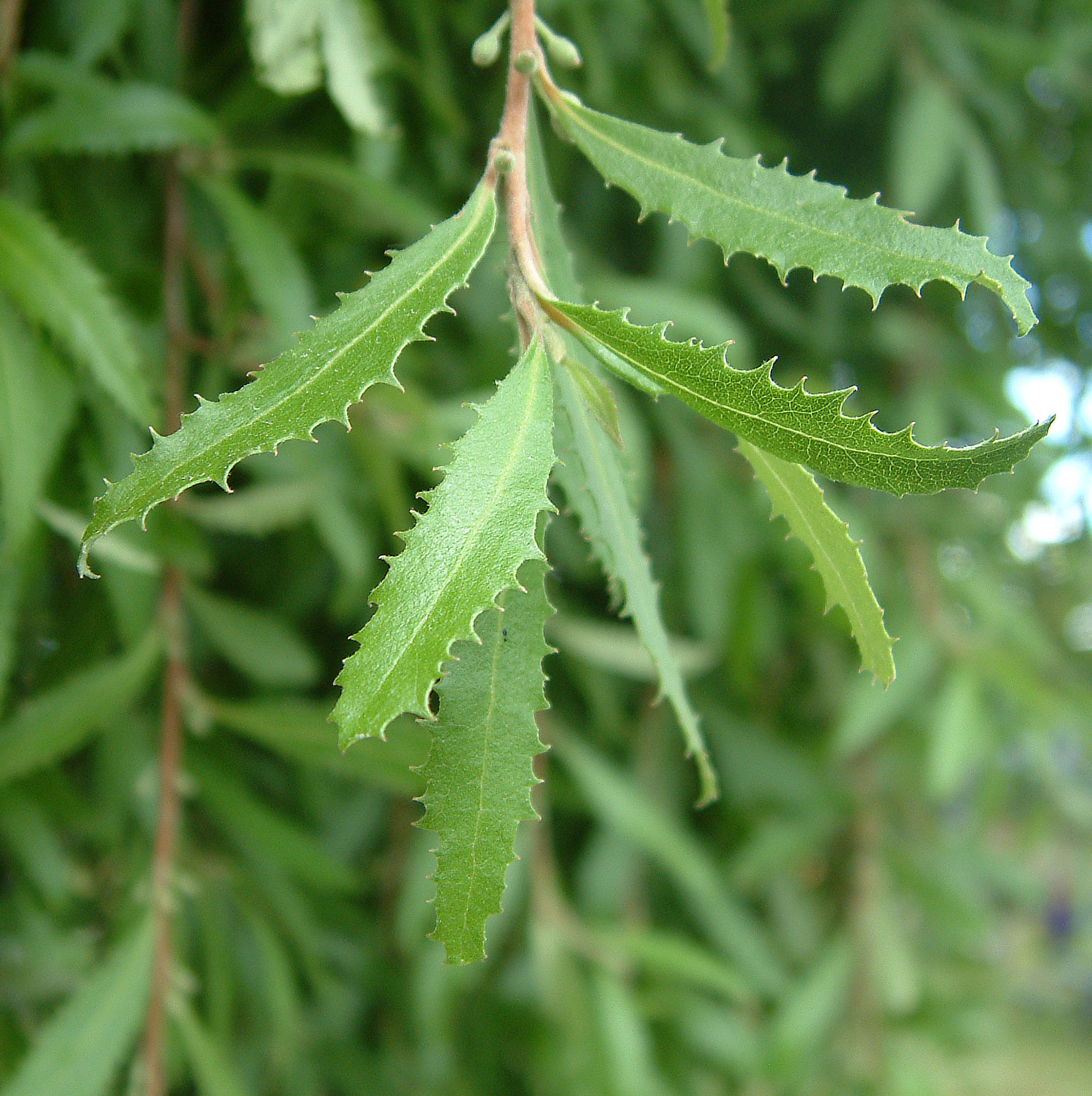 Hoheria augustifolia foliage (narrow-leaved lacebark)